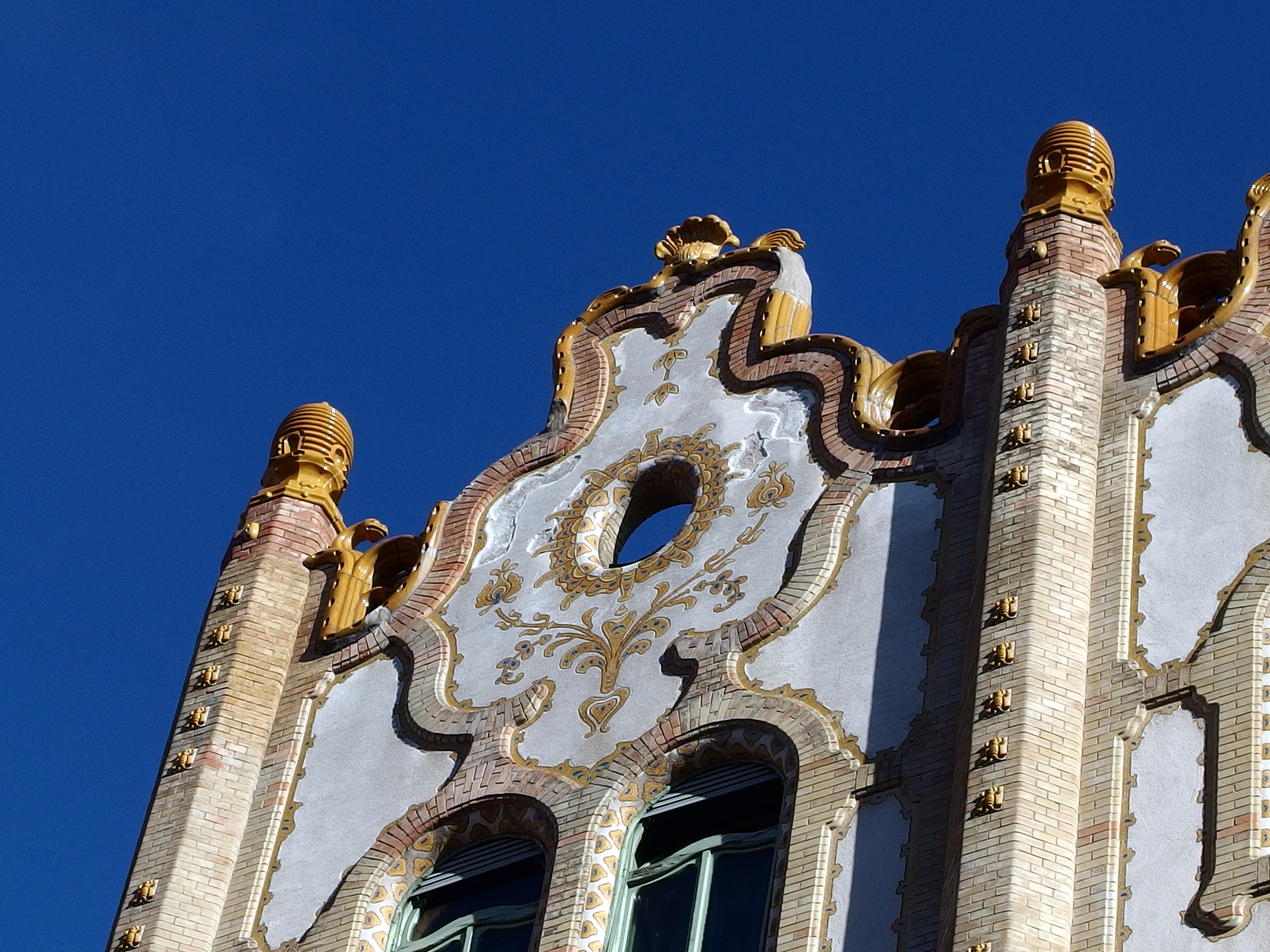 2013-06-13 in Budapest. This is a photo of a monument in Hungary. Identifier: 479